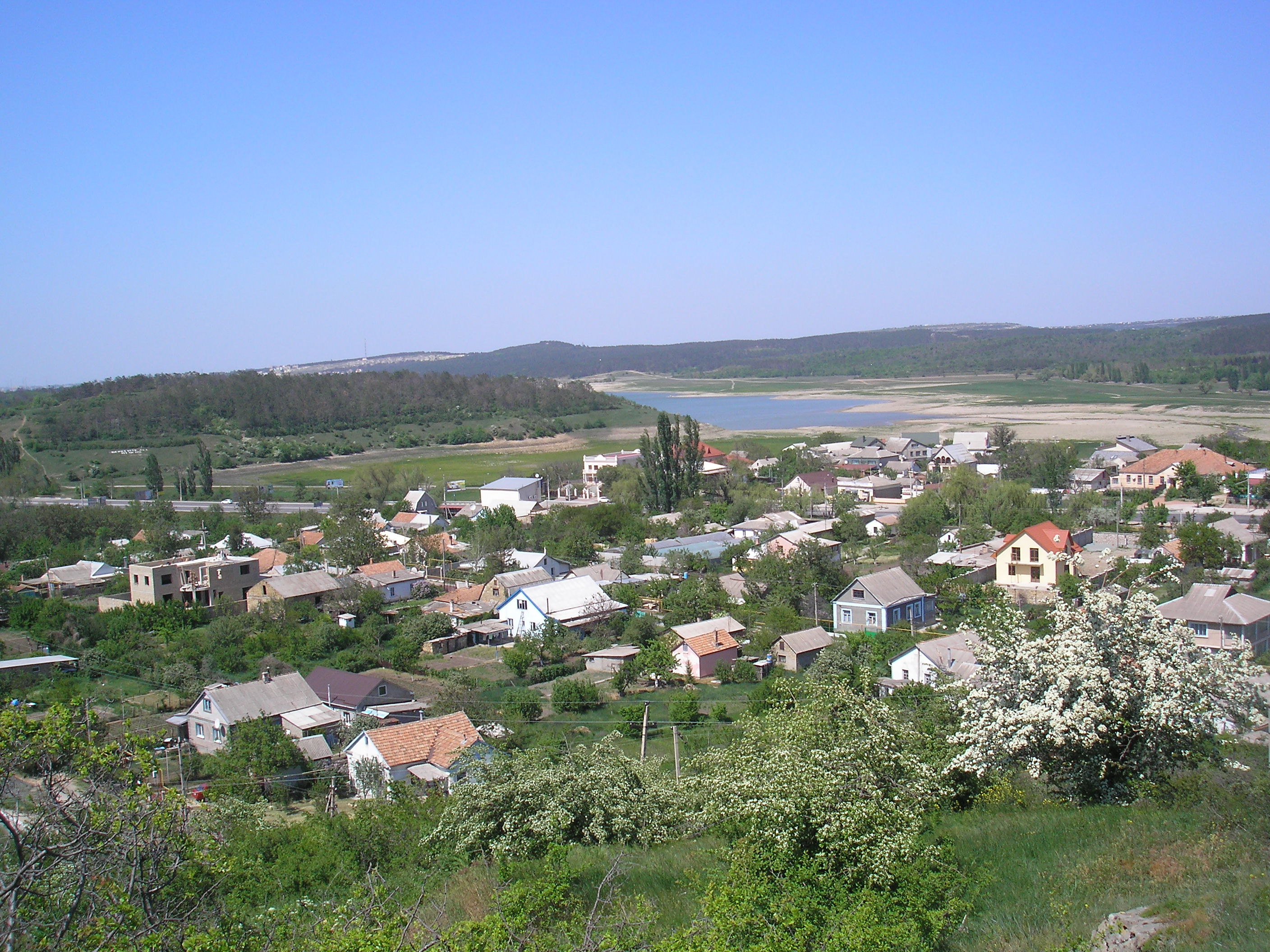 Village Lozovoe, Simferopol district, Crimea